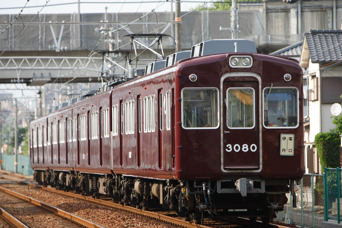 Hankyu Itami Line Hankyu 3000 Series